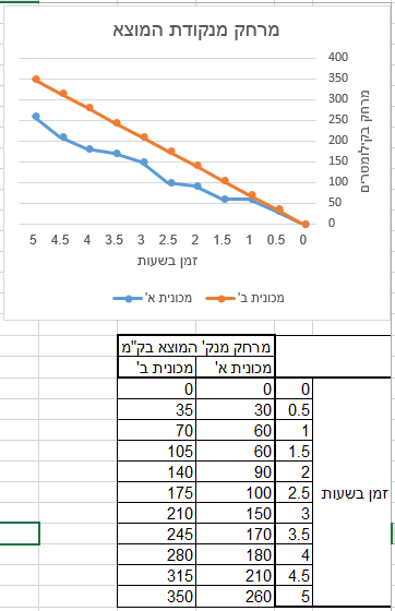 A line chart